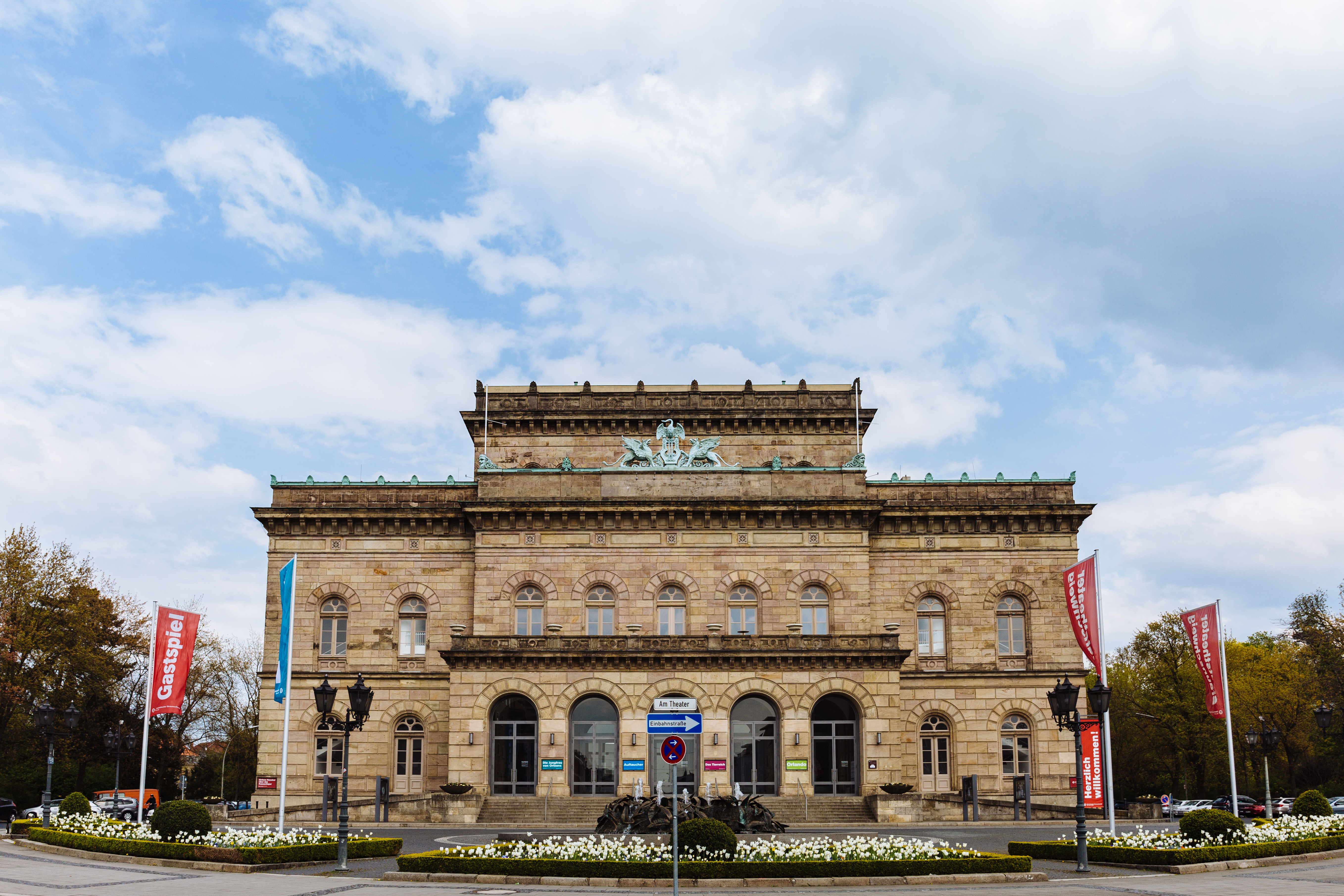 Staatstheater Braunschweig with Cimiotti Fountain in 2016